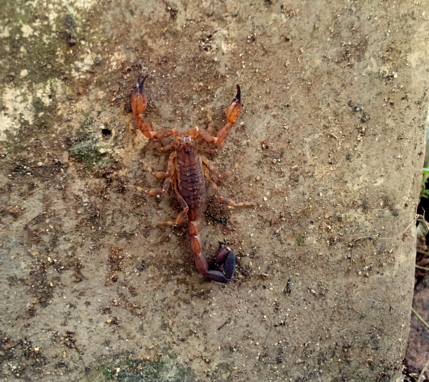 Scorpion juvenile found from Bakamuna, Sri Lanka - closer look